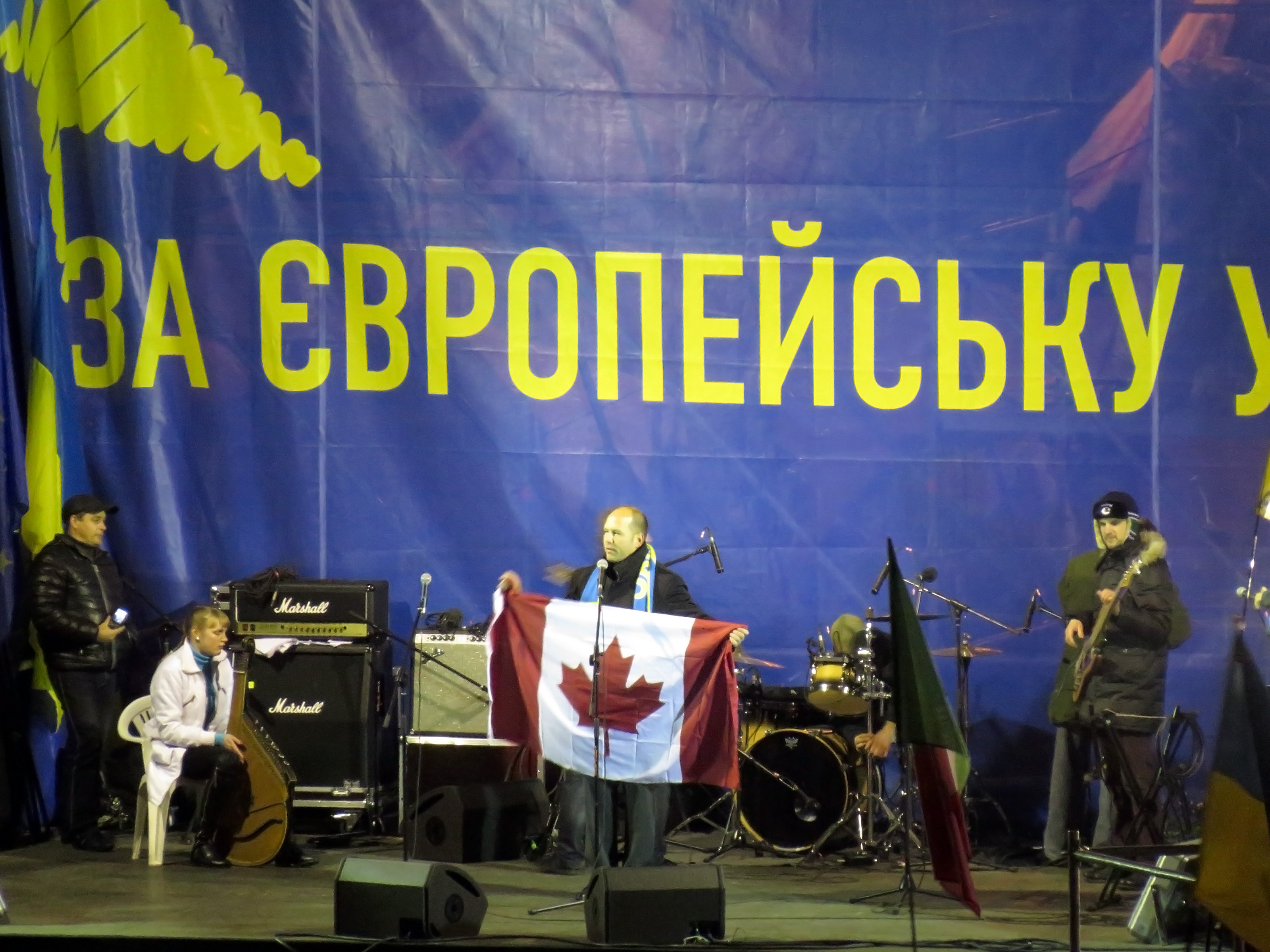 John Baird at the Euromaidan in Kiev